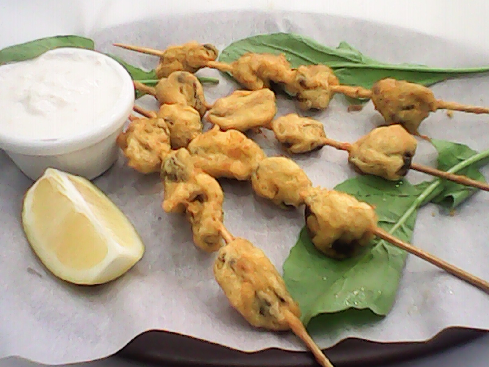 Fried mussels in Ankara.